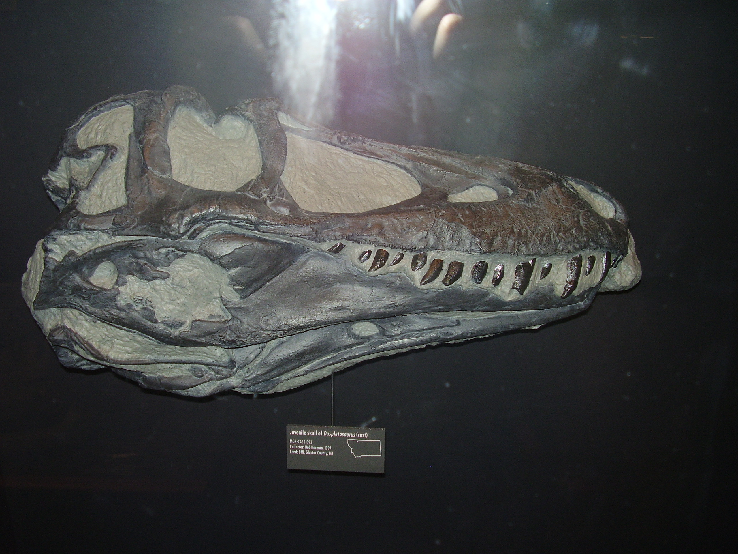 Skull of a juvenile individual of tyrannosaurid theropod Dapletosaurus. Museum of the Rockies, Bozeman (Montana, USA).